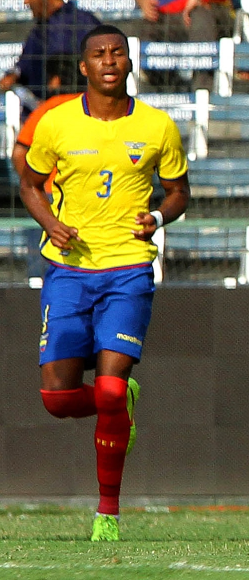 Guayaquil, 06 de jun (Andes).-En el estadio George Capwell, la selección de fútbol de Ecuador se enfrenta a Panamá en partido amistosoFoto: César Muñoz/Andes Frickson Erazo